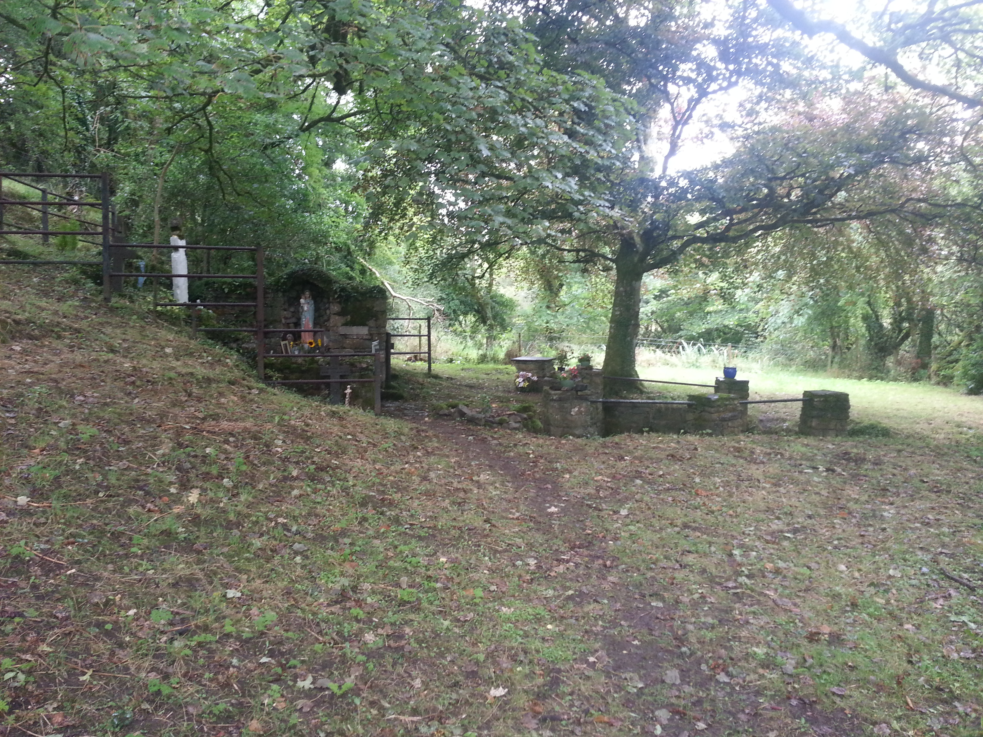 Tobar Naofa